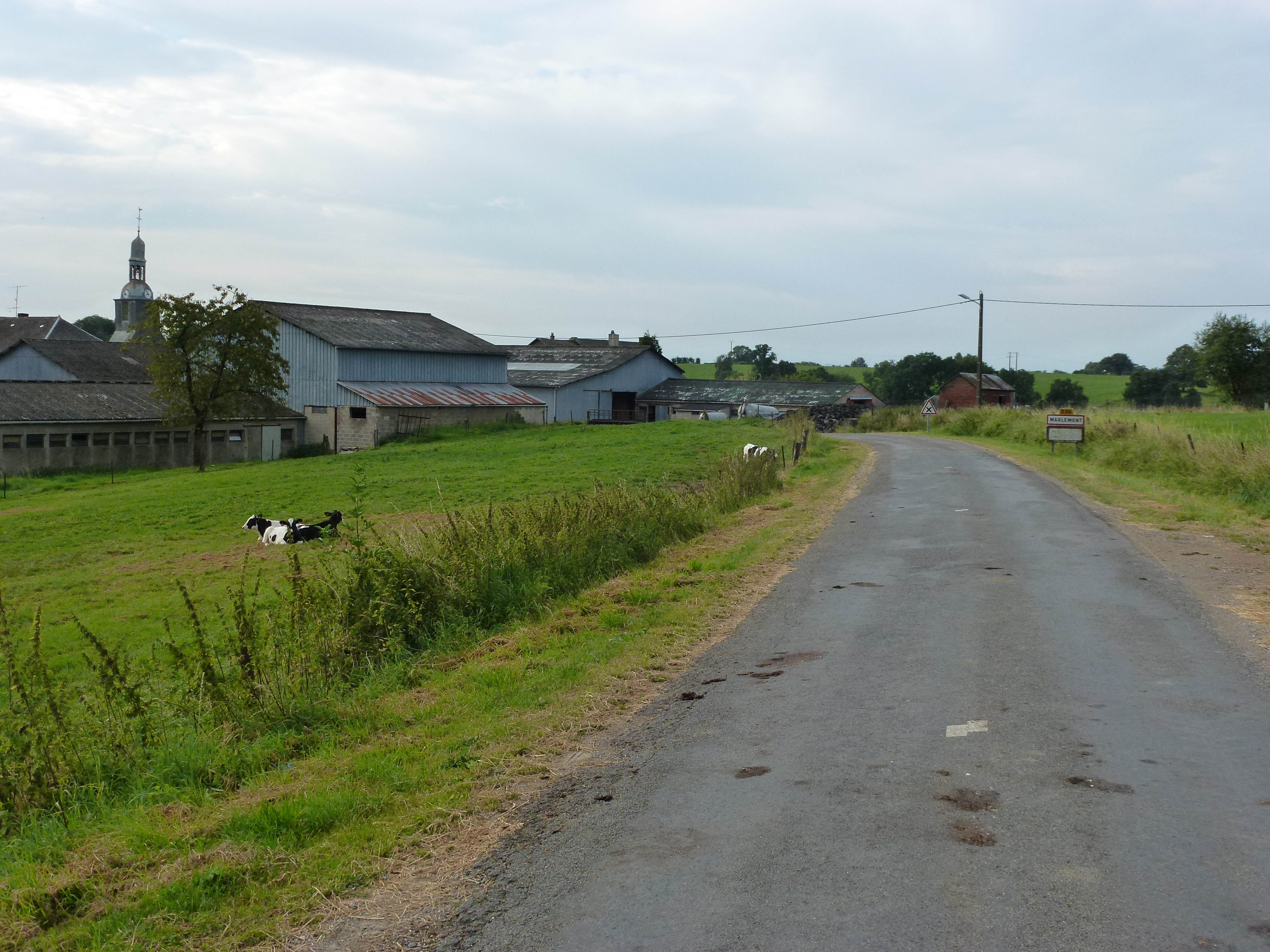 Marlemont (Ardennes) city limit sign